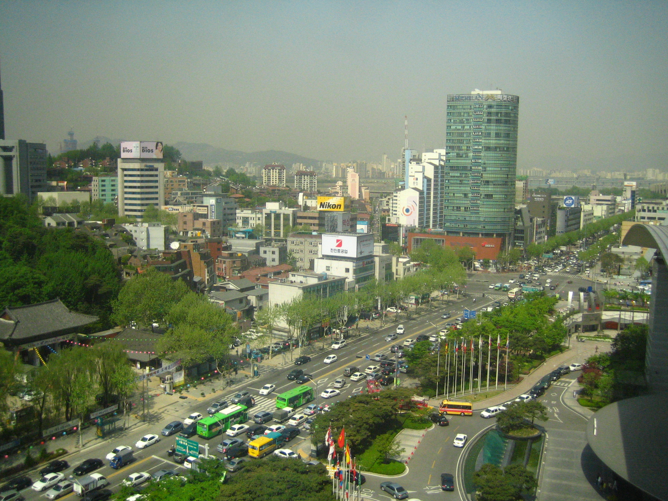 View from COEX Continential Hotel.